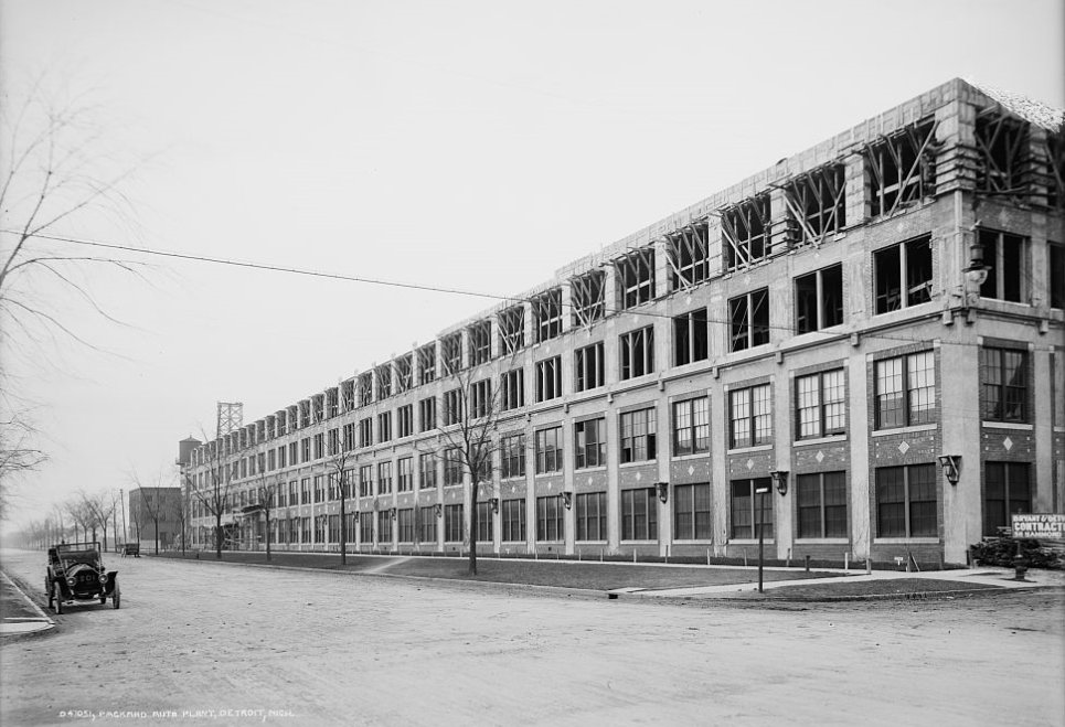 Packard plant no 10 in construction 1900-1910